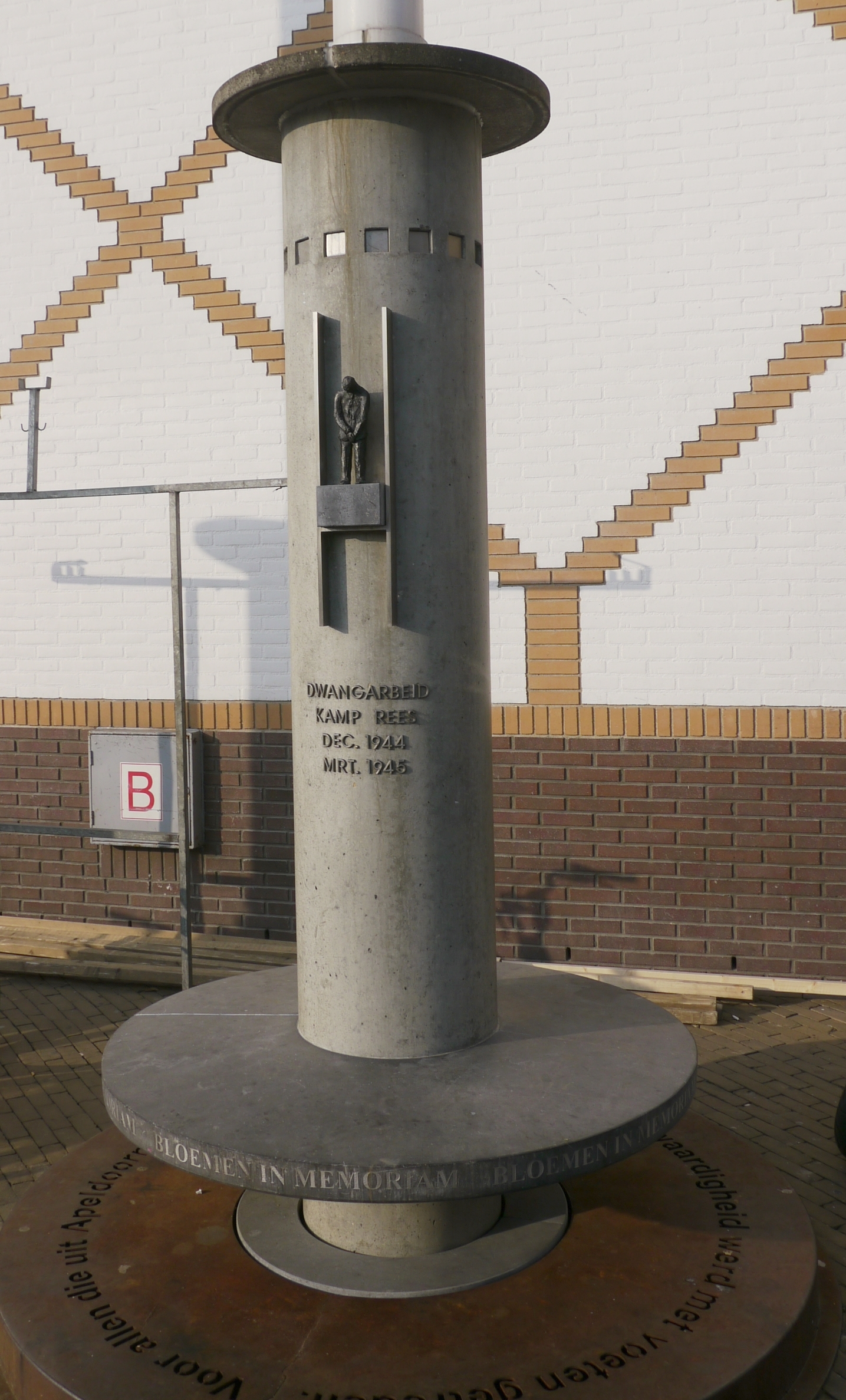 'De Dwangarbeider'(the convict), a statue that is attached to one of the pillars of the town hall of Apeldoorn, Netherlands: Marktplein (market place). Made by Tirza Verrips.